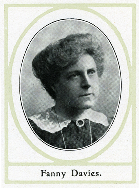 Fanny Davies (1861-1934), English pianist. Scan from: Musikliste für Welte's Reproduktionspianos, M. Welte & Söhne, Hoflieferanten, Filiale (branch): New York, 273 Fifth Avenue; Freiburg in Baden. Freiburg, 1909